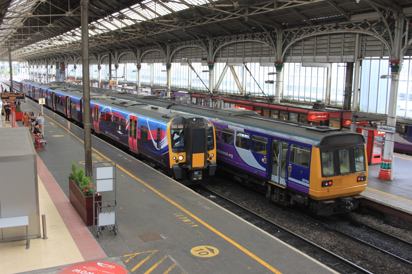 Preston station in September 2015. On the left is First TransPennine Express electric unit 350403 which is heading from Manchester Airport to Glasgow Central. On the right is Northern's 142058 which has terminated having arrived from Blackpool.